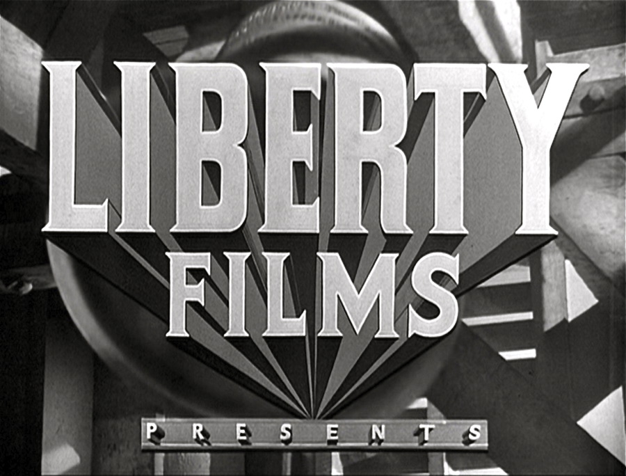 Liberty Films logo from It's a Wonderful Life.